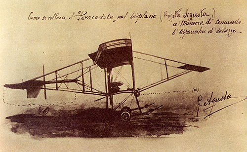 The drawing of the AG-1 plane by Giovanni Agusta